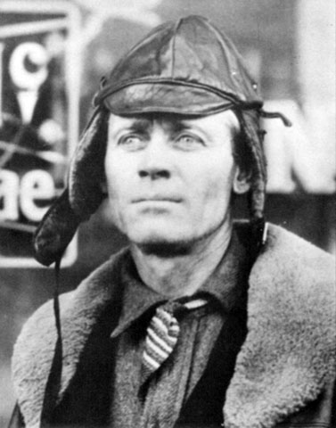 Fred W. Barr (1882-1940). From 1904 to 1923 he ran a burro train business to Pikes Peak, Colorardo and developed trails in the Pikes Peak area.